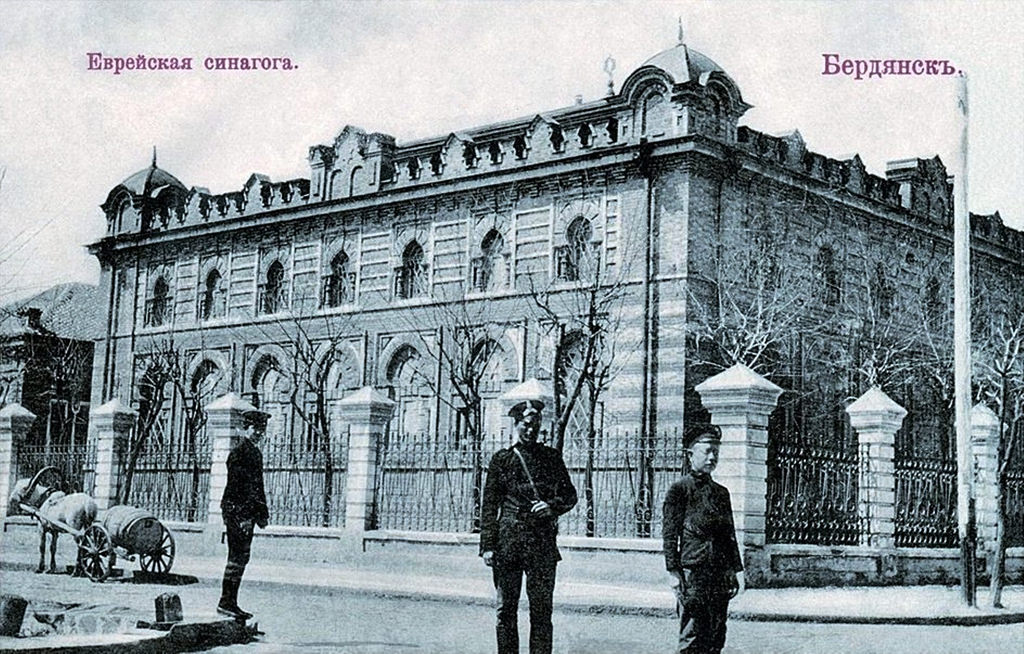 Synagogue in Berdyansk. Pre-1917 postcard Flickr data on 2011-08-13 Tags: Old picture, postcard, Synagogue, Berdyansk, Public Domain License: CC BY-SA 2.0 User: paukrus Ruslan